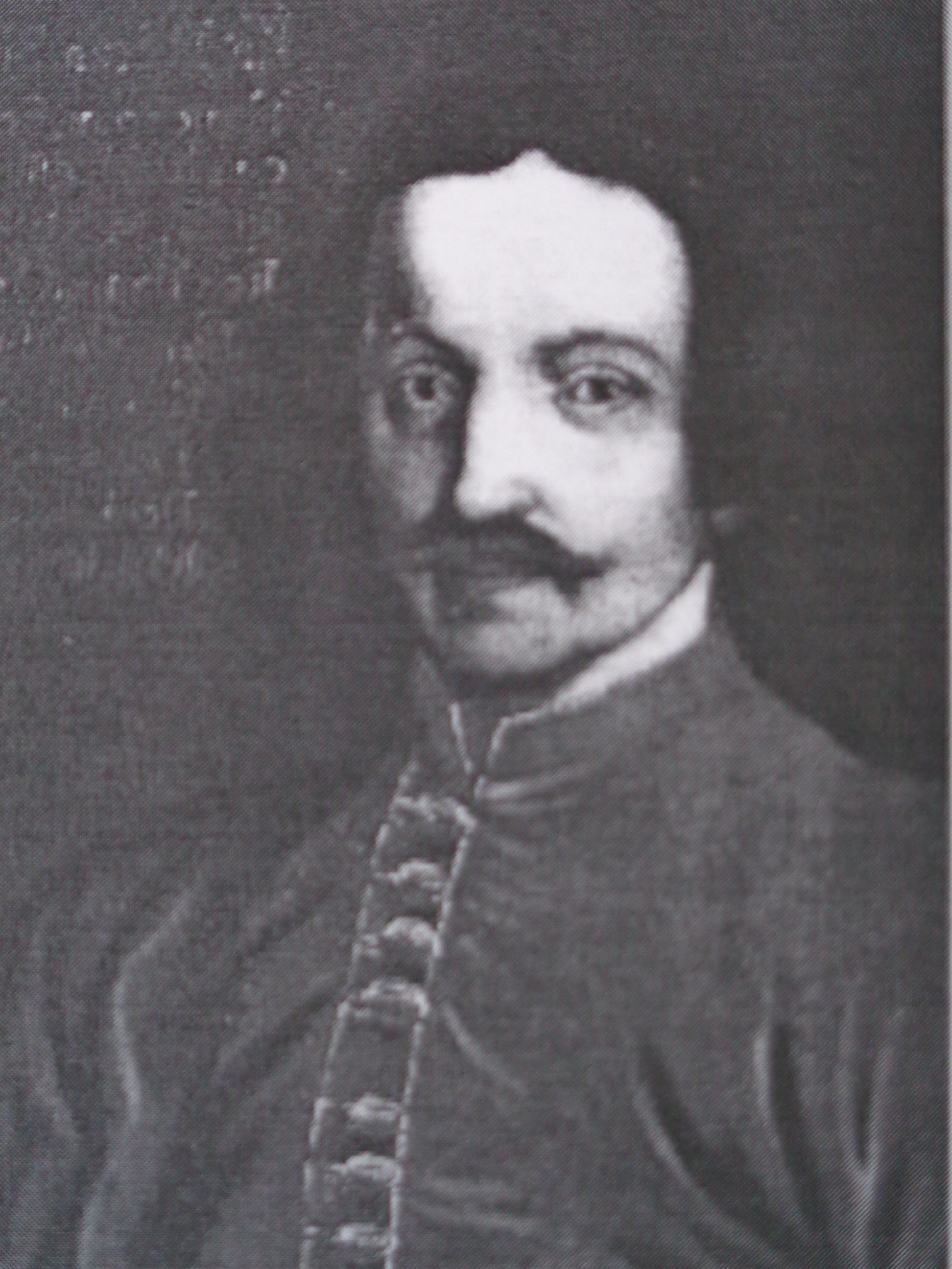 Juraj (George) III Frankopan Slunjski (of Slunj) (*? - †1553), Prince of Krk, Senj and Modruš (Slunj branch), Croatian nobleman, owner of the famous Cetingrad Castle